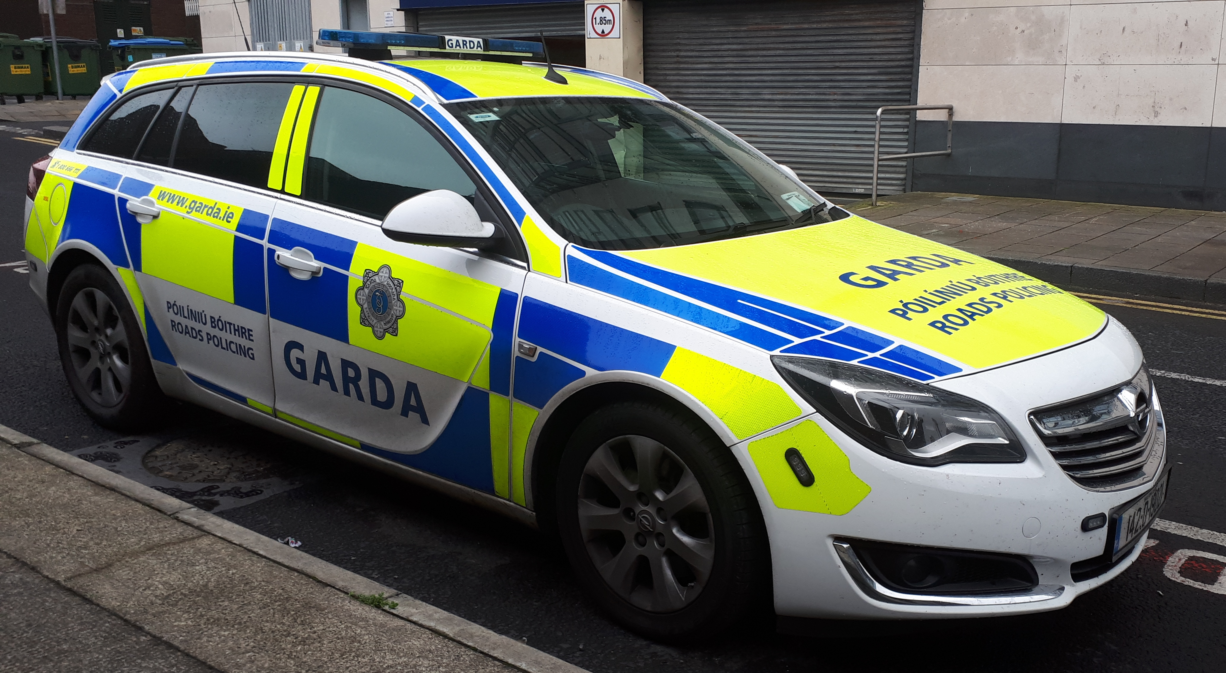 An garda siochana opel insignia tourer